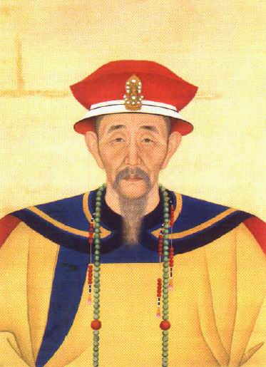 Kangxi Emperor in late 60s